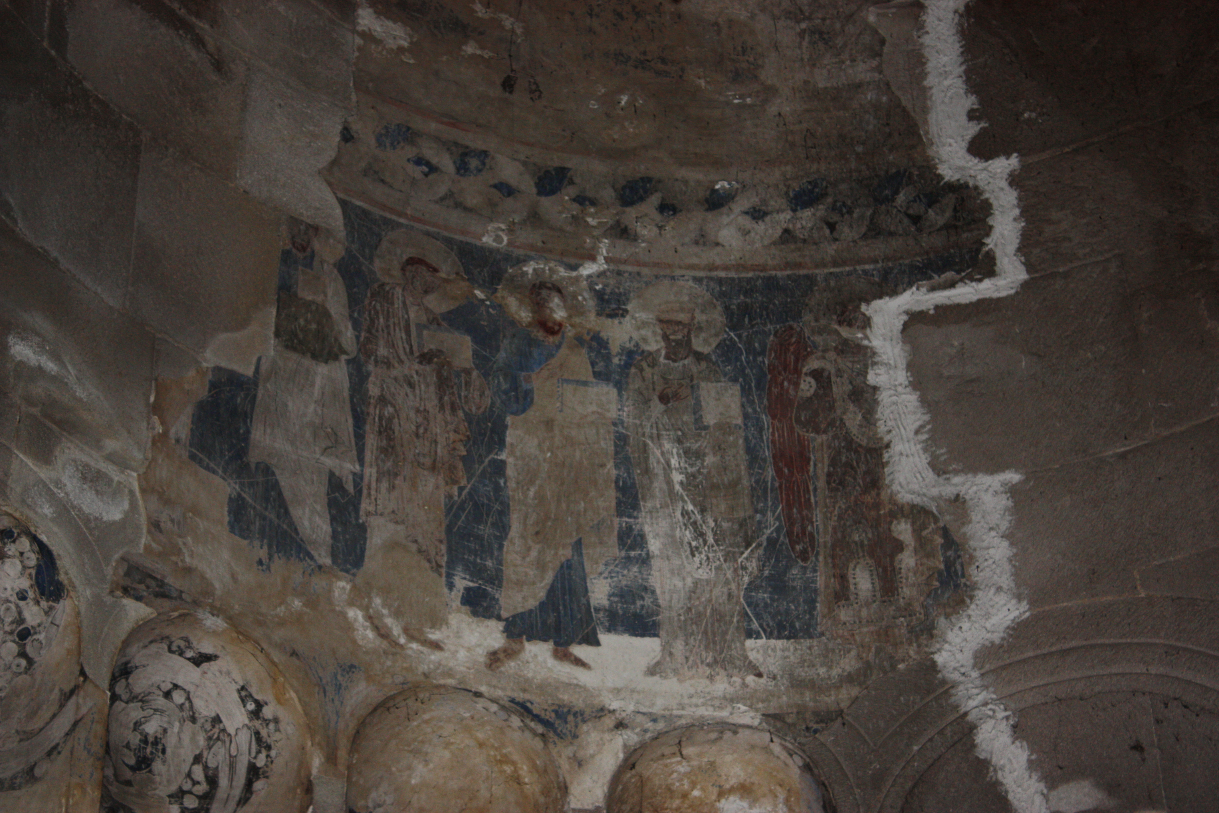 Fresco of Saints, Khakhuli, Historical Tao-Klarjeti Georgian Kingdom, nowadays Turkey.